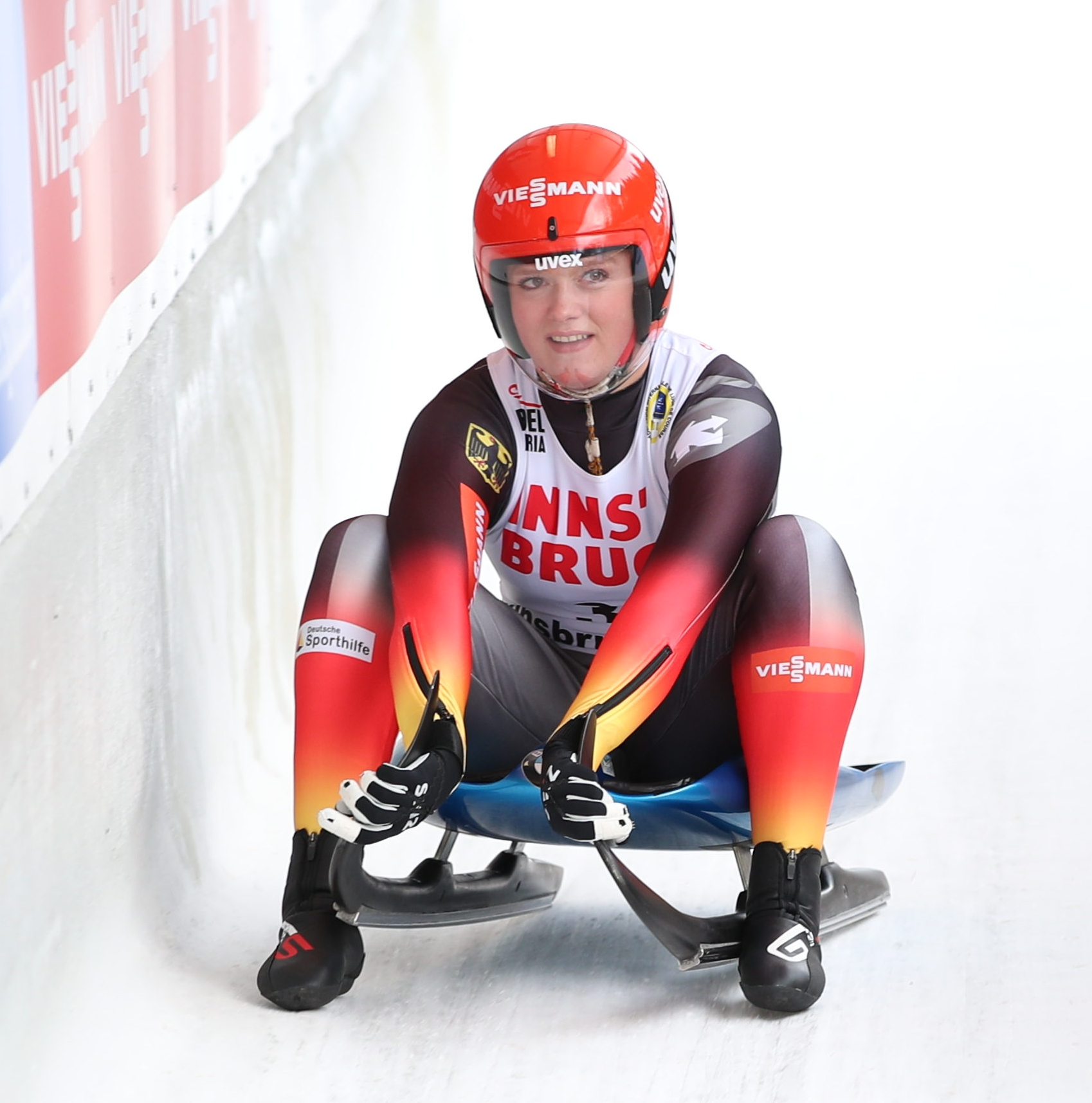 Women's Nations Cup race at the 2019/20 Luge World Cup in Innsbruck-Igls